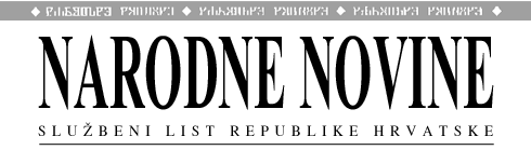 Official Logo of Narodne Novine (a croatian newspaper of record)